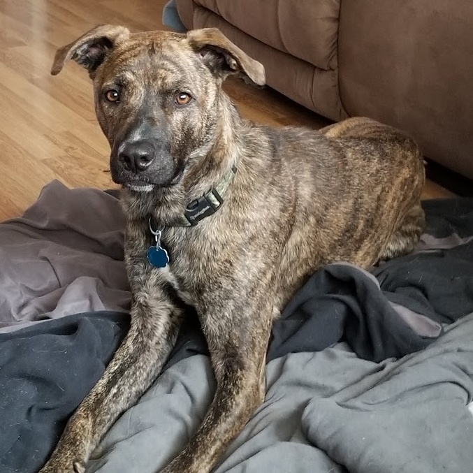 2 year old mountain cur